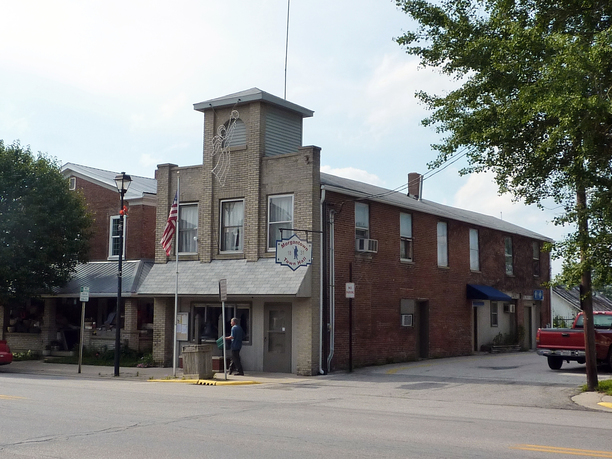 Downtown Morgantown, Indiana.